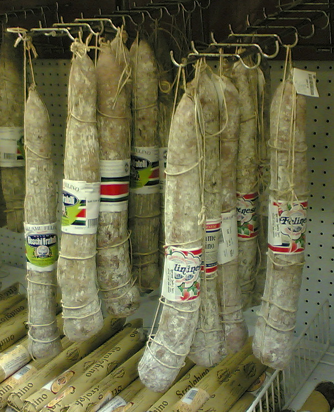 Felino Salami